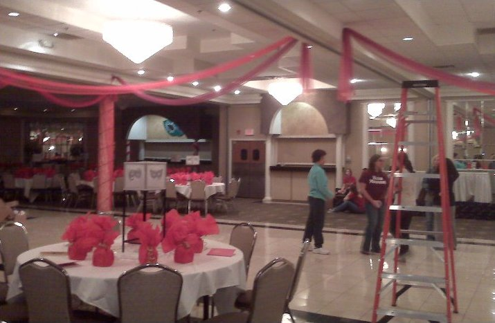 Decorating for Prom in 2009 student advisors put last-minute decorations up at a banquet hall.